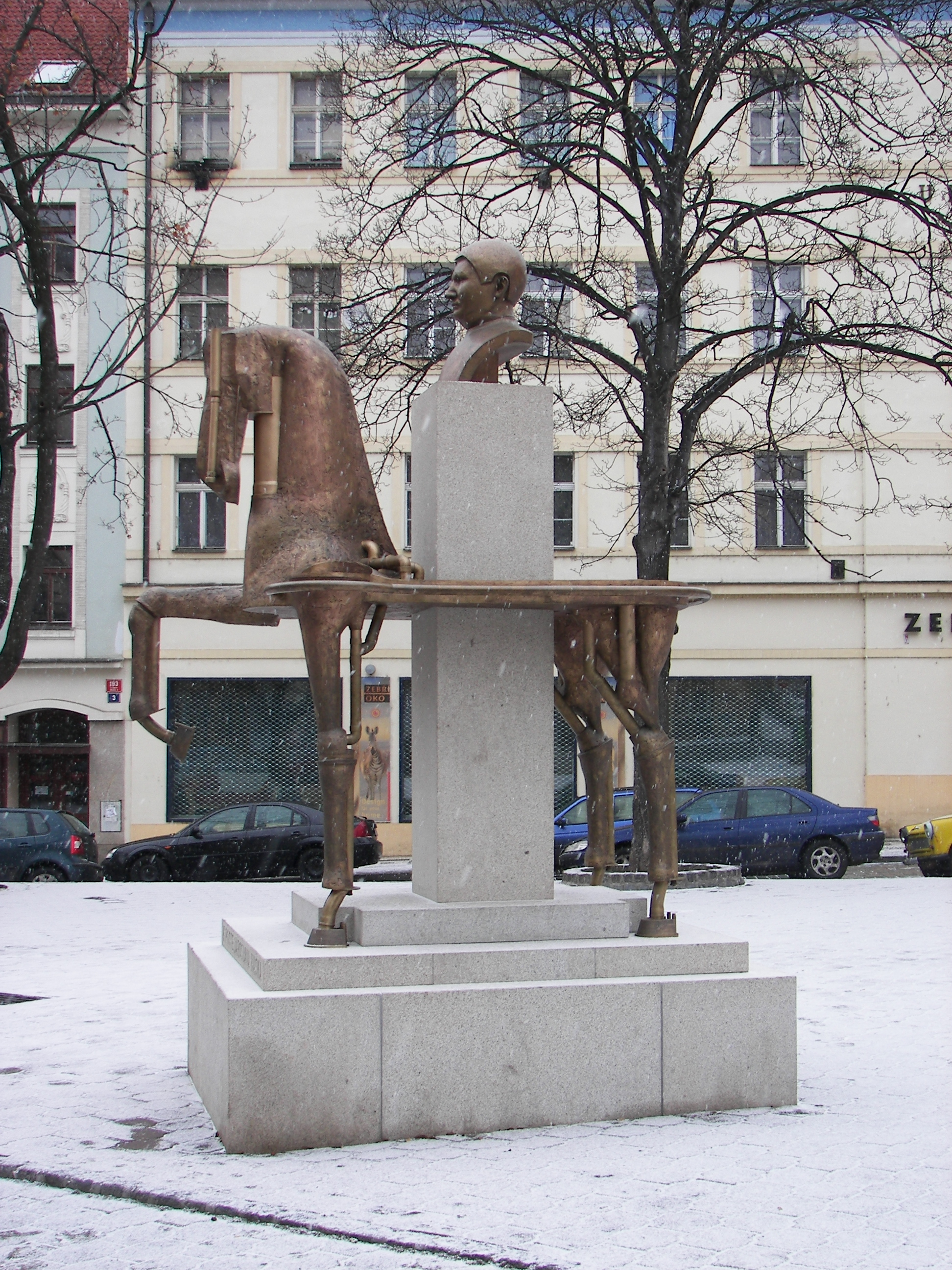 Statue of Jaroslav Hašek from Karel Nepraš and Karolína Neprašová. Prague.